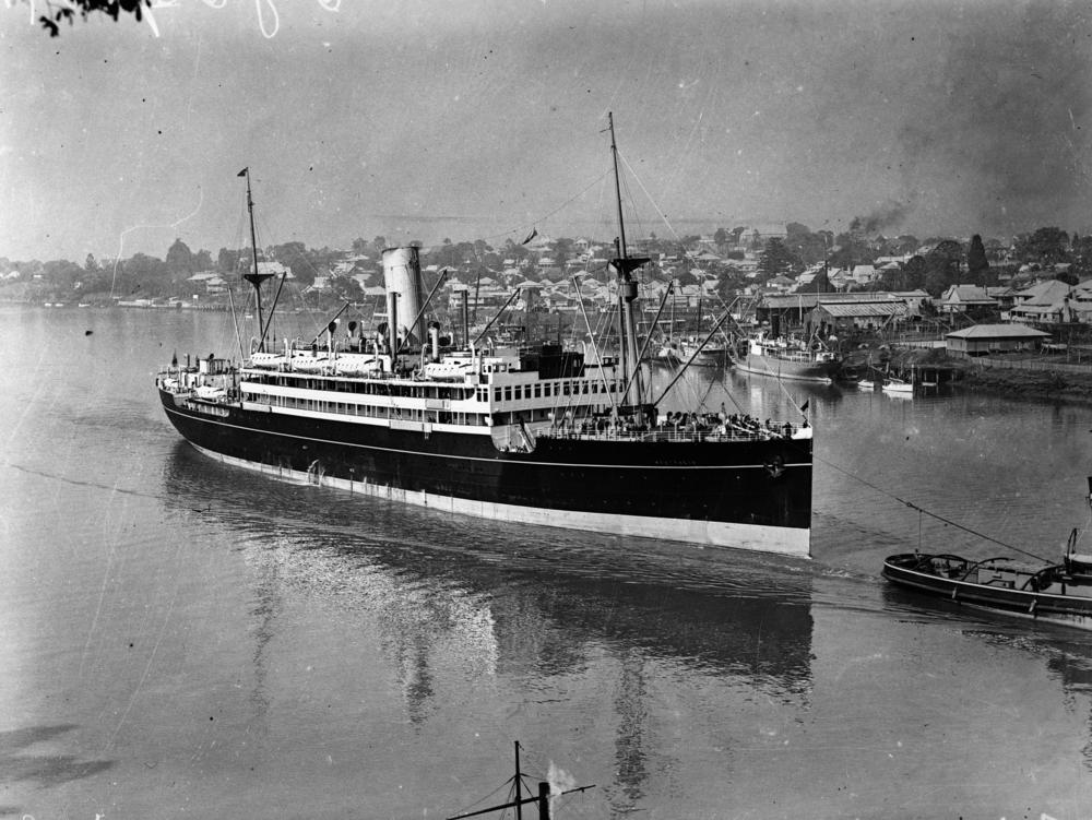 Passenger steamship Westralia, built in 1929 for Huddart Parker of Melbourne, Australia